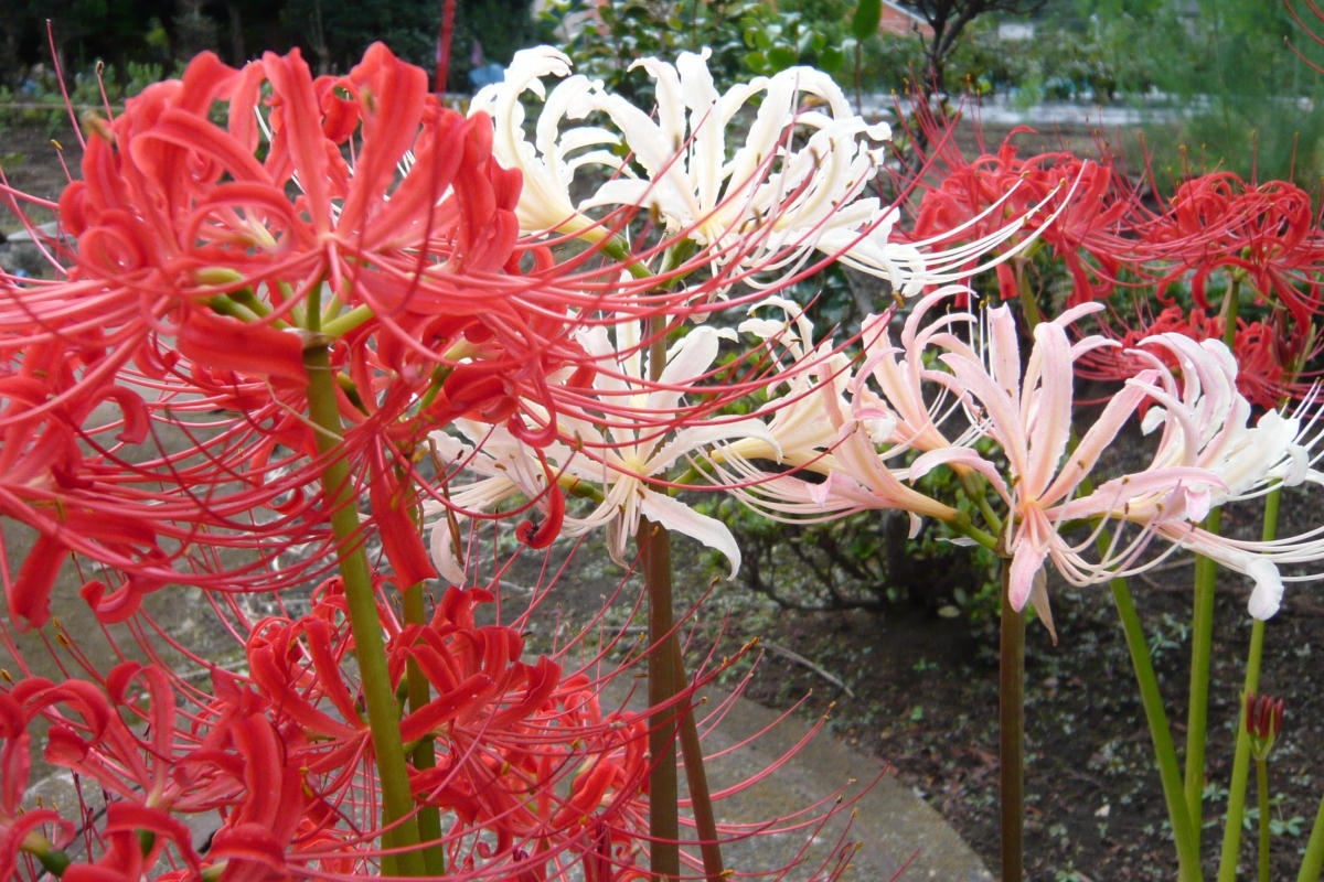 Lycoris radiata Red&White